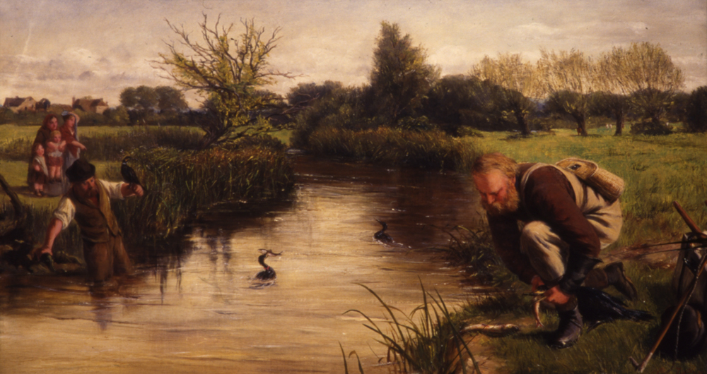 Fishing by Proxy, river scene showing Francis Henry Salvin and his cormorants.